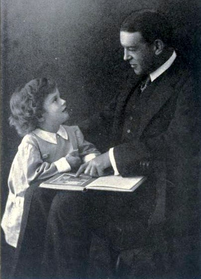 Sir Ernest Henry Shackleton, aged 40, with his younger son, aged 3.